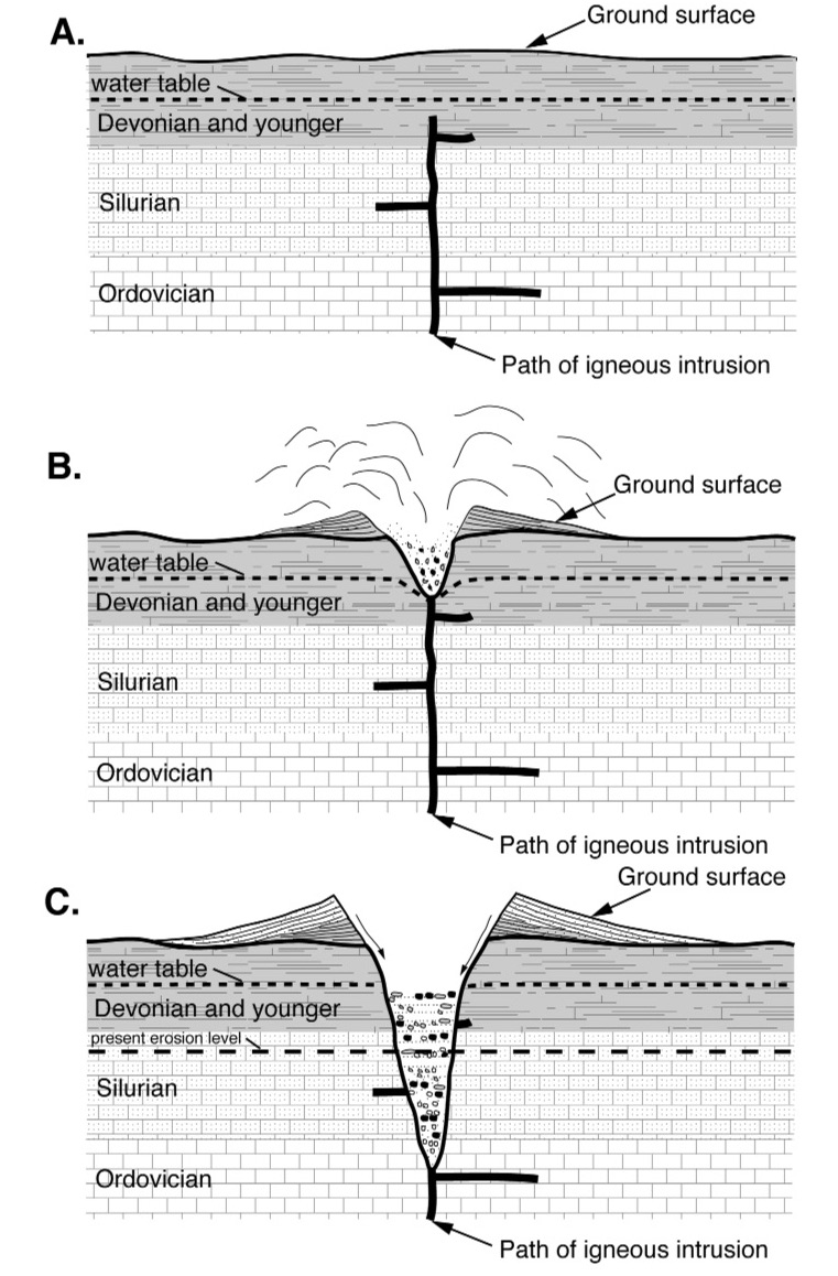 Country Rock Intruded. A USGS map, from an article, about part of the US states of Virginia and West Virginia. On the article, can't find an explicit date (?!). Though as far as I can tell, the actual location is fictional. Notes, Figure 16. Eruption sequence of an Eocene diatreme following the hydrovolcanic model. A, Eruption commences when an intrusion reaches shallow depths and encounters a rich source of ground water; B, the breccia pipe propagates downward, creating a cone of depression of the water table, while a tuff ring forms around the central crater and the walls of the pipe collapse downward; C, material collapses into the pipe, allowing rocks from higher in the stratigraphic sequence to fall to lower levels, while forming some crude layering. Debris flows away from the crater walls to form volcaniclastic layering.